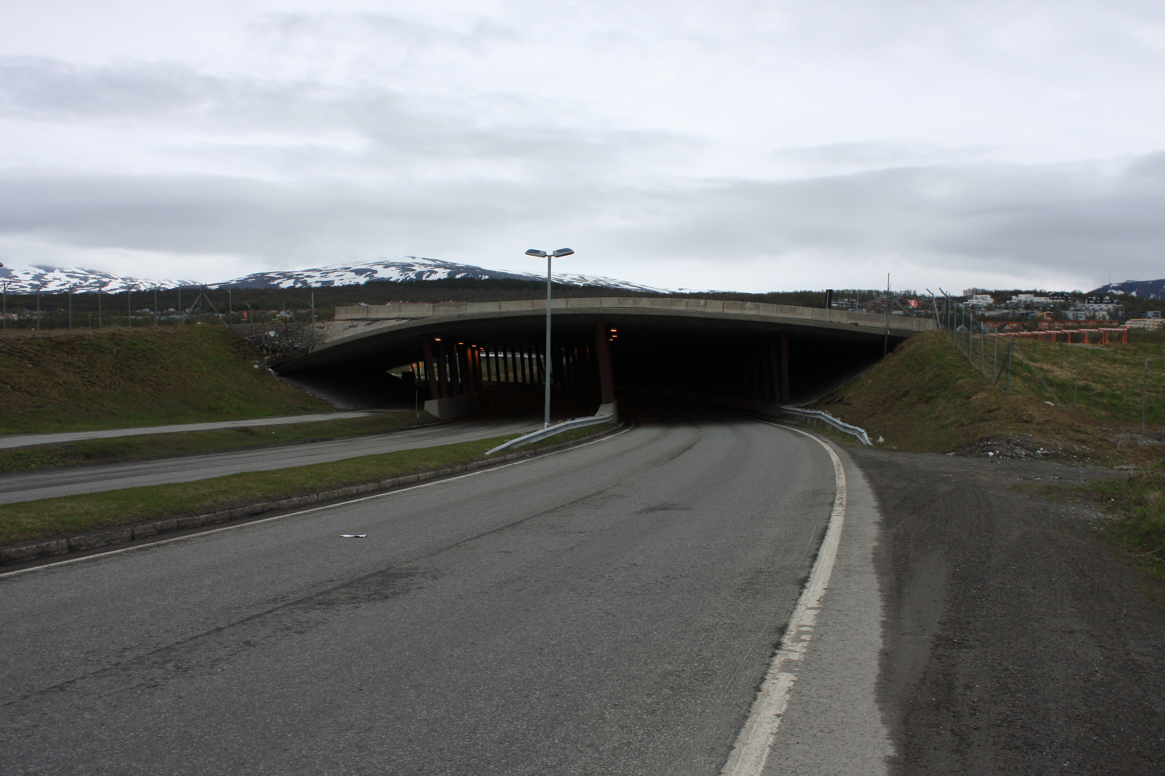 West entrance